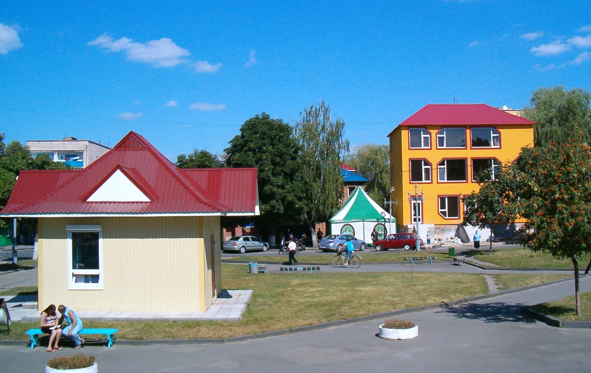 Center of Kostopil